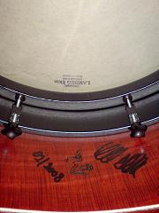 toolless tuning system modern bodhran